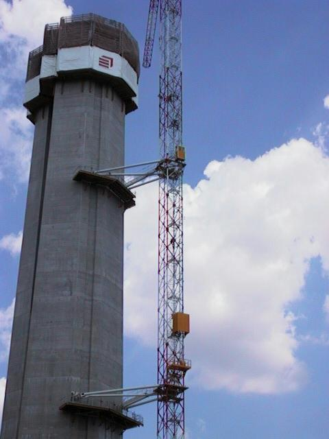 Millau Viaduct: under construction, Aveyron, France